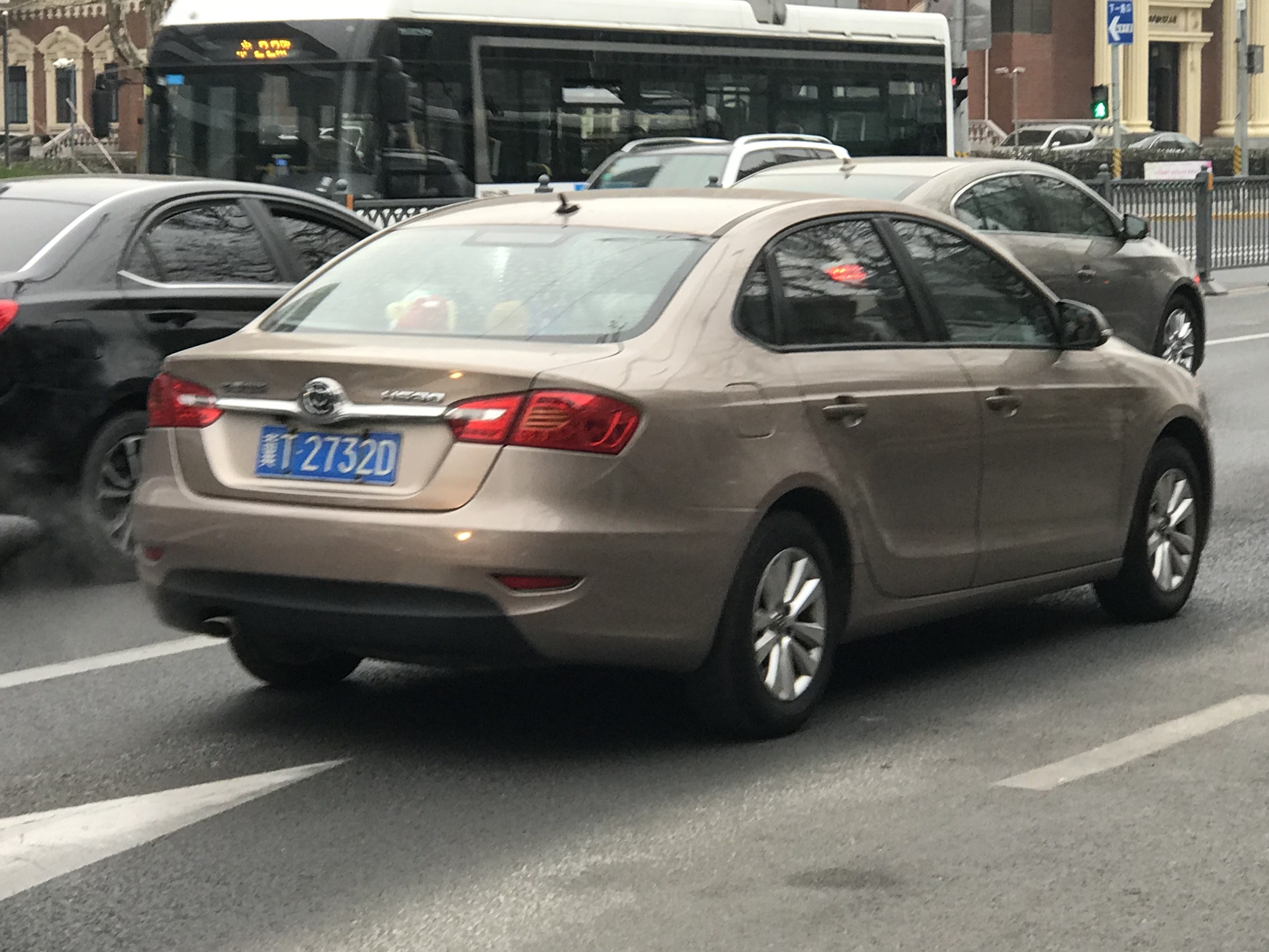 Brilliance H530 prefacelift rear